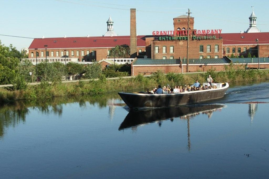 Modern-day electric-powered Petersburg boats makes several guided tours daily, departing from Canal Discovery Center dock at Enterprise Mill.